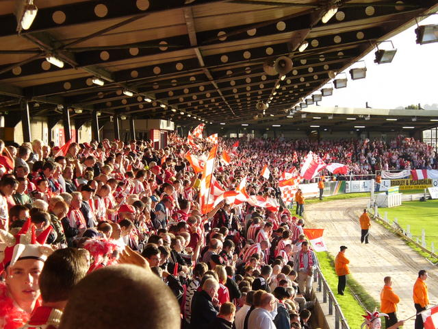 Personal photo of Brandywell.